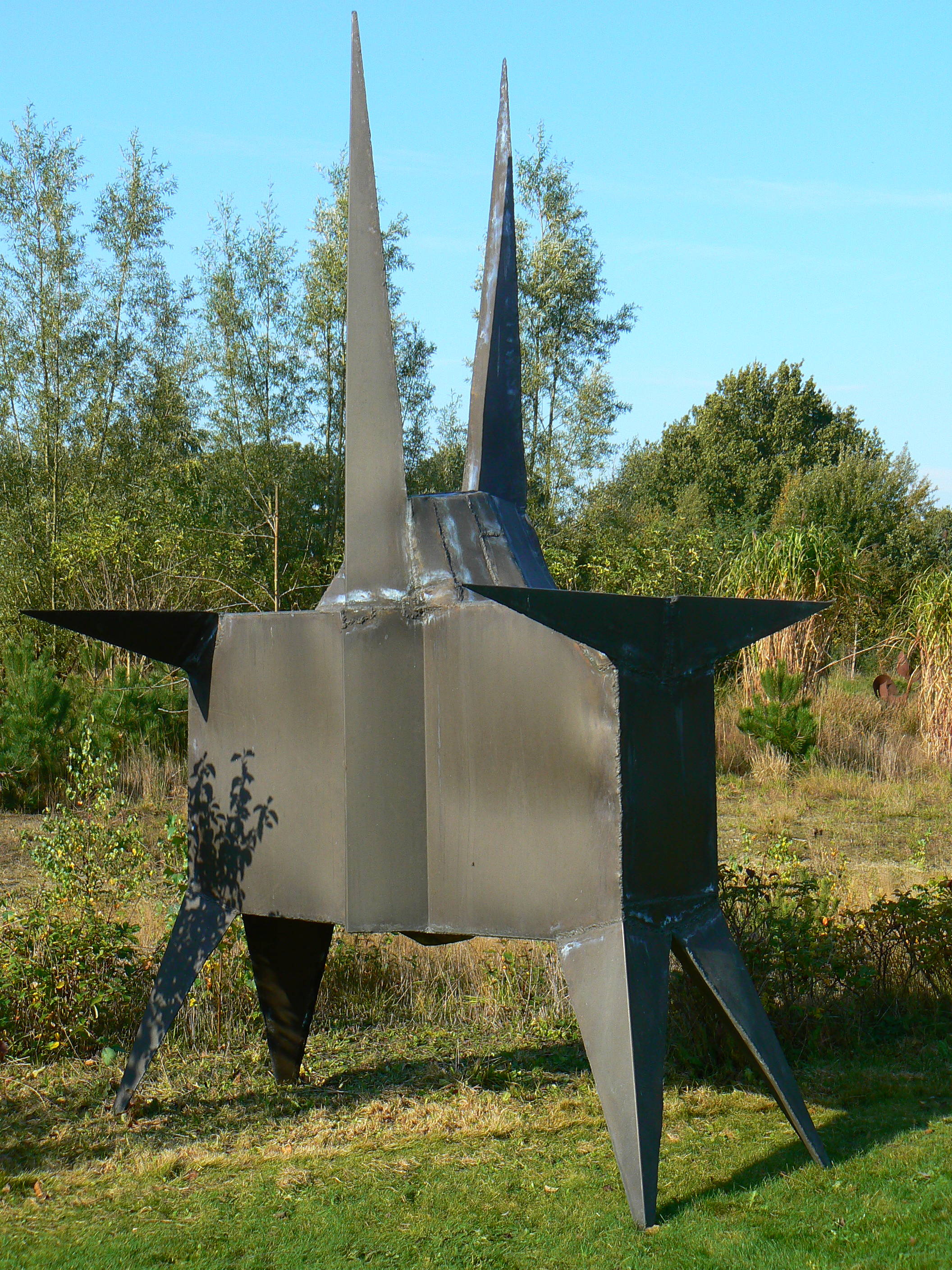 sculpture Untitled 1995/6 by Egbert Hanning in private sculpture garden in The Netherlands